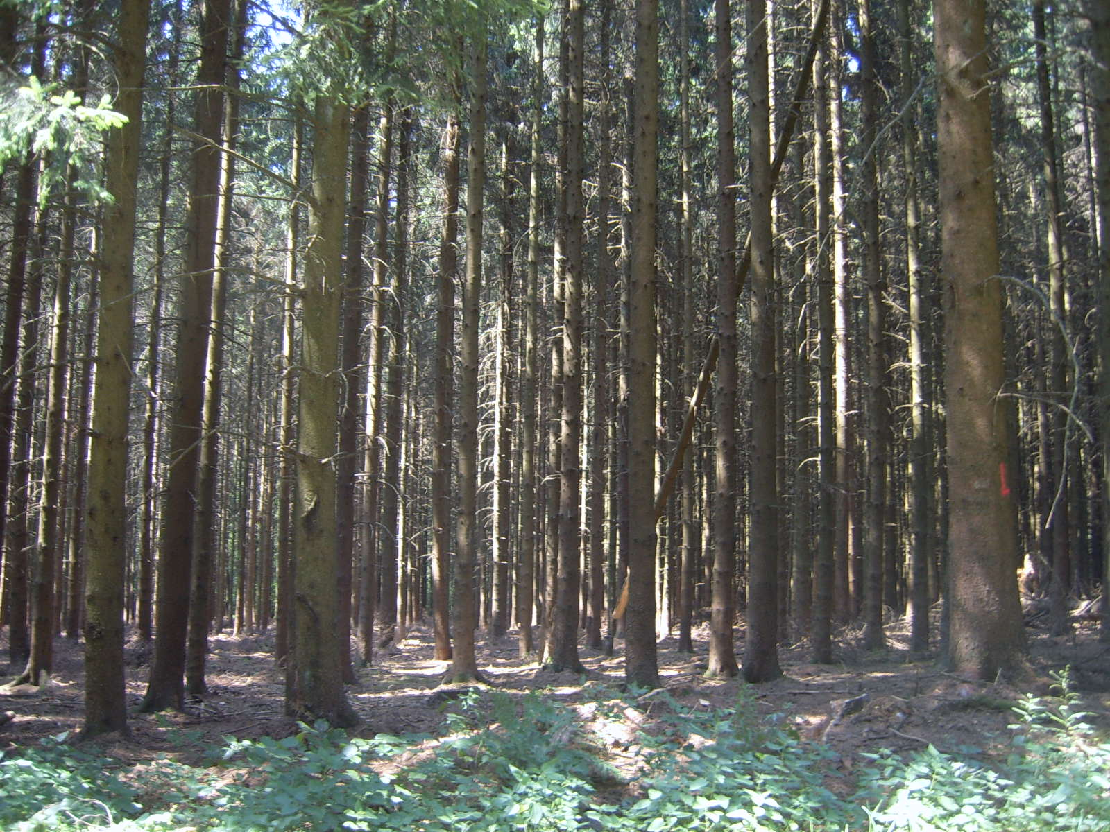 Bois Jacques nowadays, Foy, Bastogne Personal picture, I set it in public domain. Vberger 11:23, 22 July 2006 (UTC)